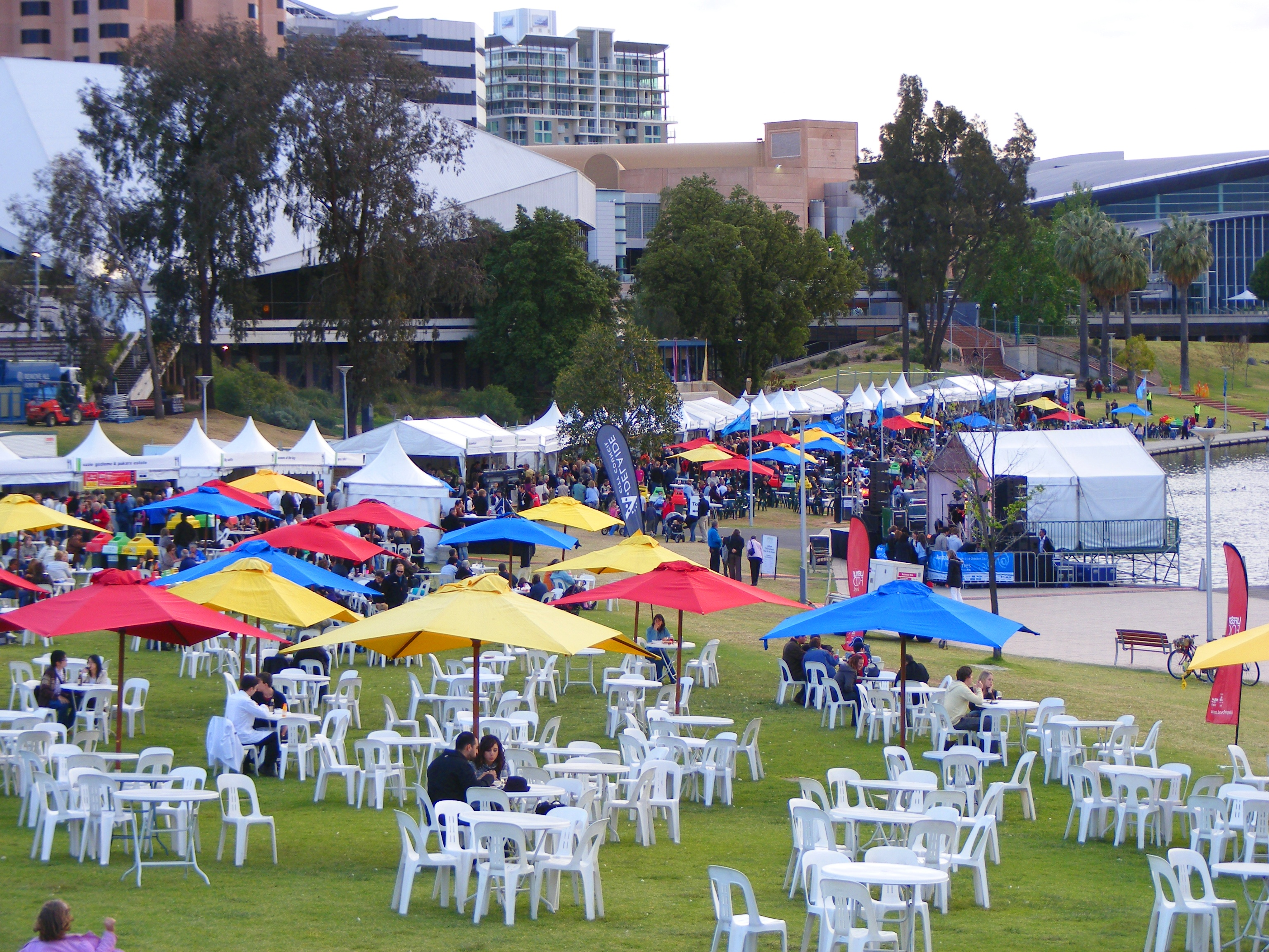 2007 Tasting Australia event at Elder park, Adelaide, South Australia. Lots of good food and wine on offer from the booths - too much had by the photographer before this